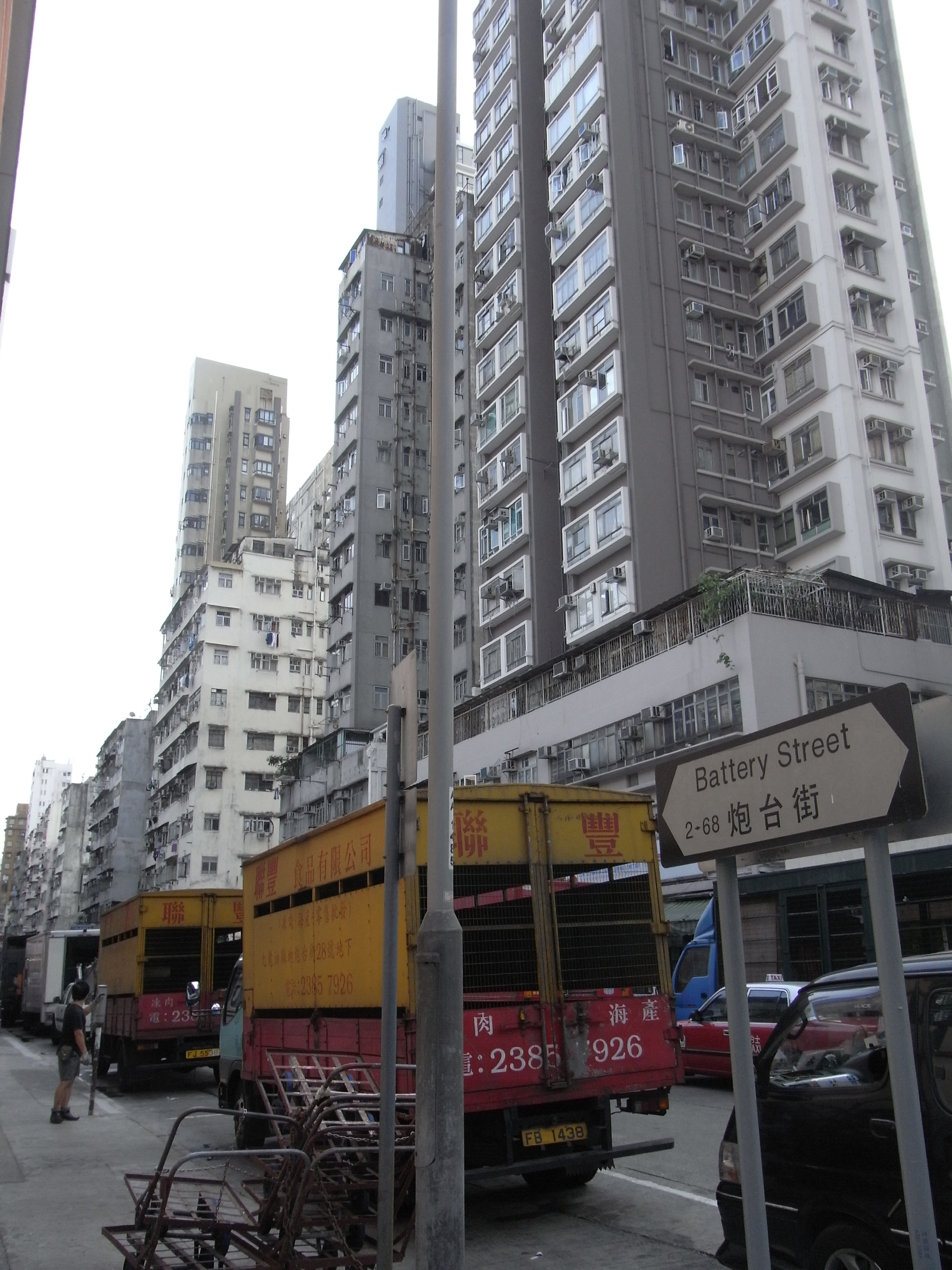 油麻地 炮台街